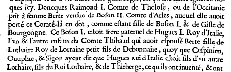 "Occitanie" in a French book of 1647, Jean Besly, Histoire des comtes de Poitou et des ducs de Guyenne depuis 811 à Louis le Jeune'